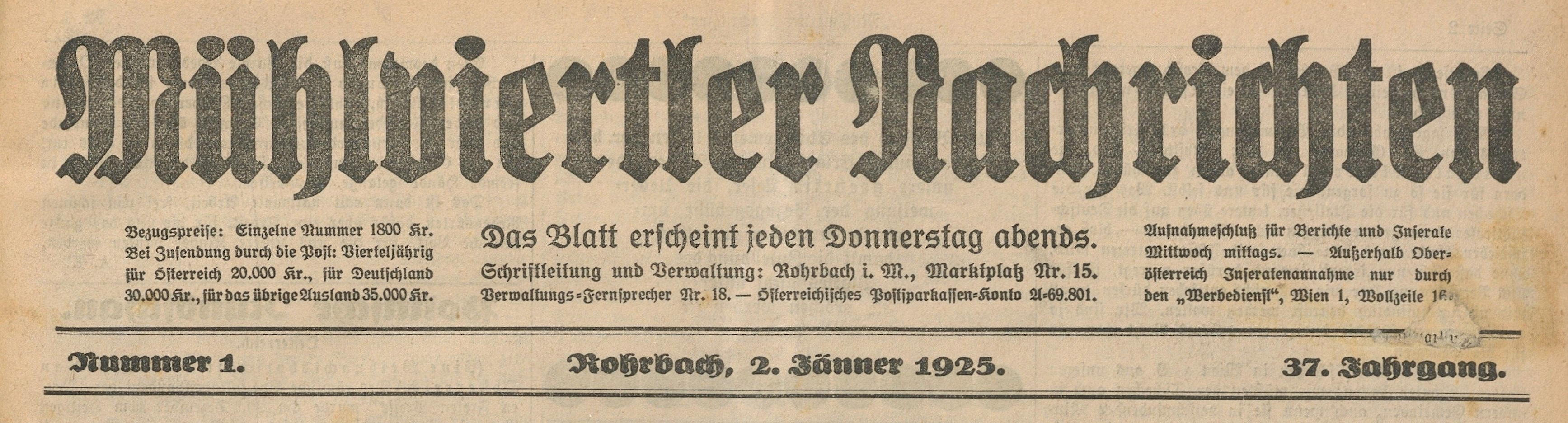 Header of the title page of the Upper Austrian weekly Mühlviertler Nachrichten since 2ndJanuary 1925.